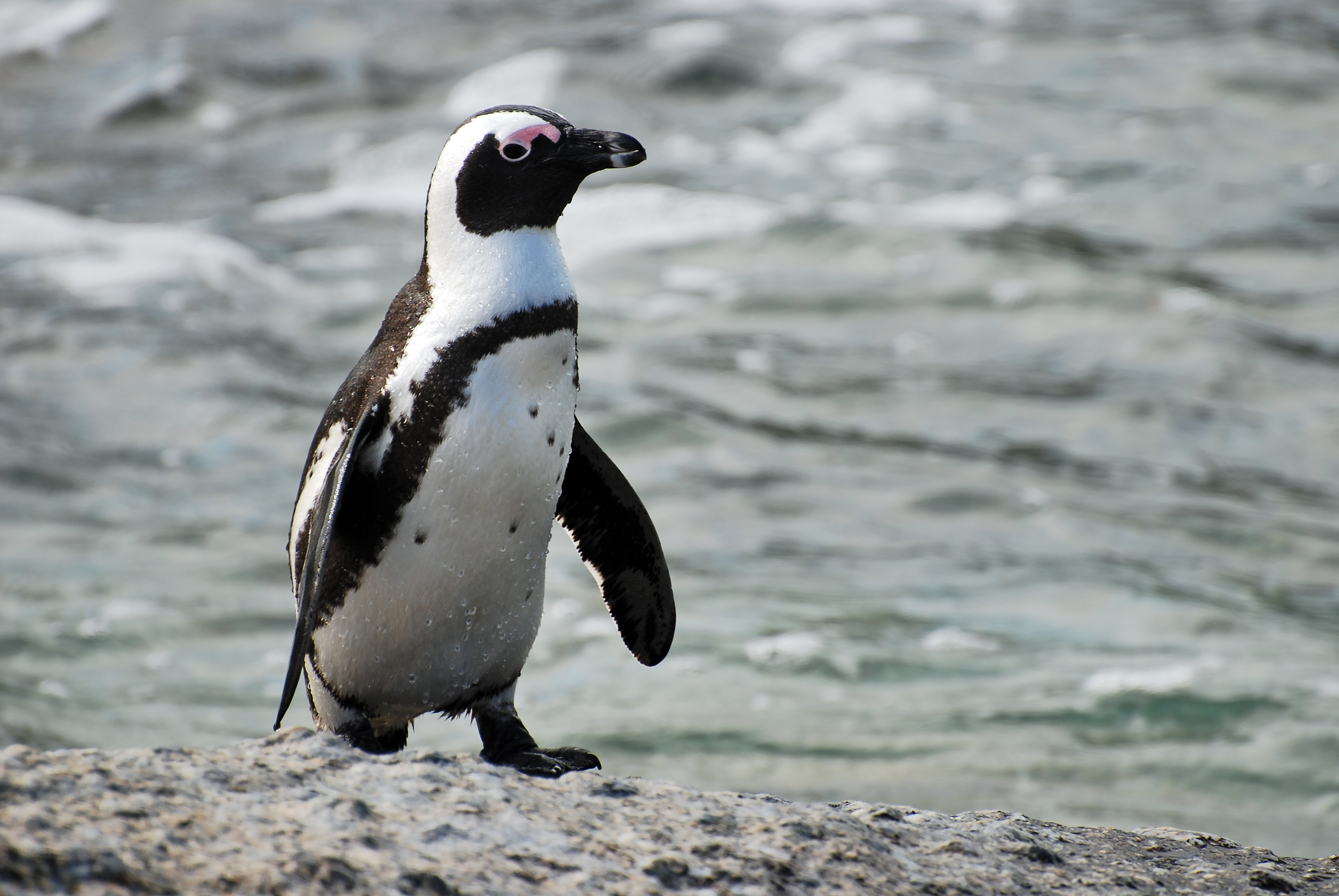 African penguin (Spheniscus demersus), near Boulders Beach, South Africa